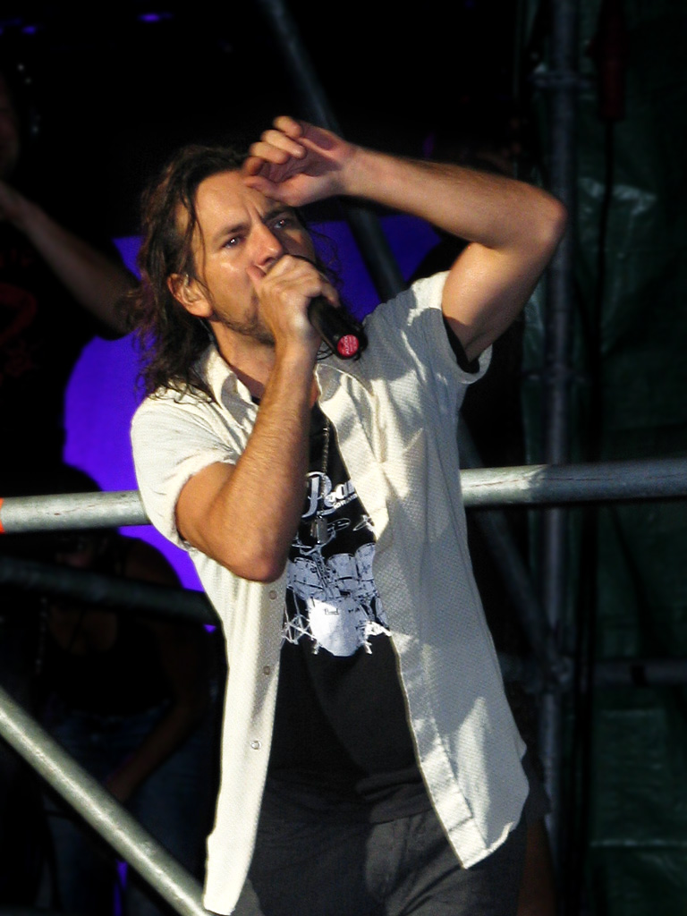 Pearl Jam with singer Eddie Vedder in concert at Piaza Duomo, Pistoia, Italy